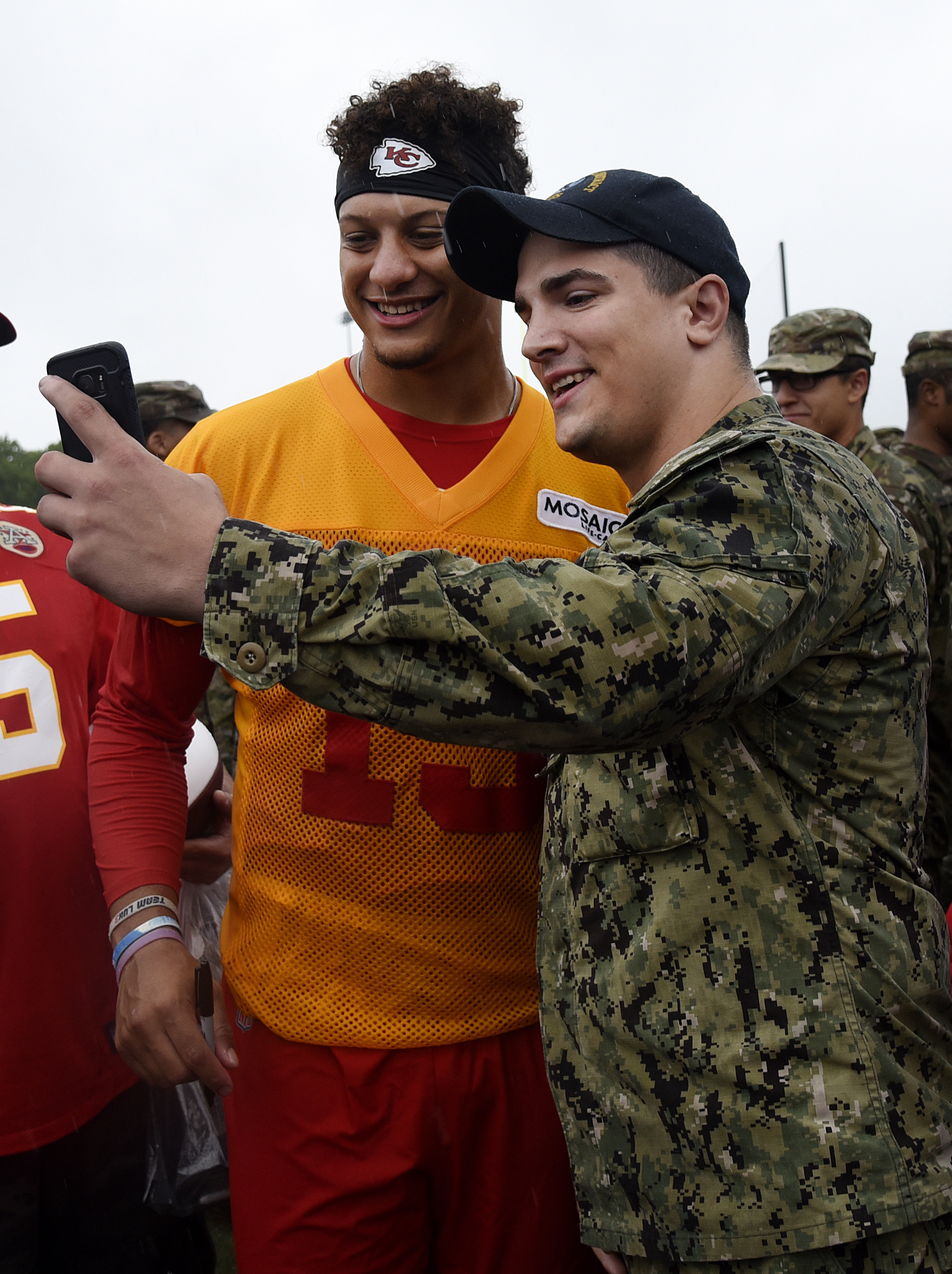 Service members from Missouri and Kansas meet Kansas City Chiefs players at the Chiefs training camp in St. Joseph, Mo., Aug. 14, 2018. The Chiefs hosted a military appreciation day as the last day of the training camp. Kansas City quarterback, Patrick Mahomes, taking a photo with a service member.